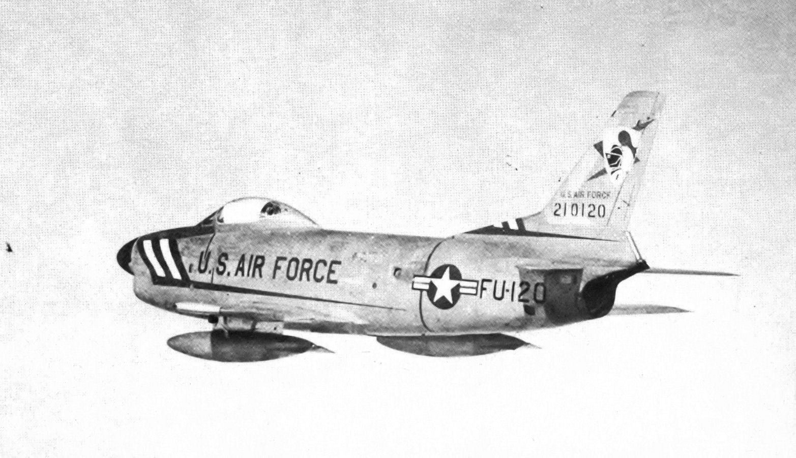 86th Fighter-Interceptor Squadron North American F-86D-50-NA Sabre 52-10120, Youngstown Air Force Base, Ohio, 1955